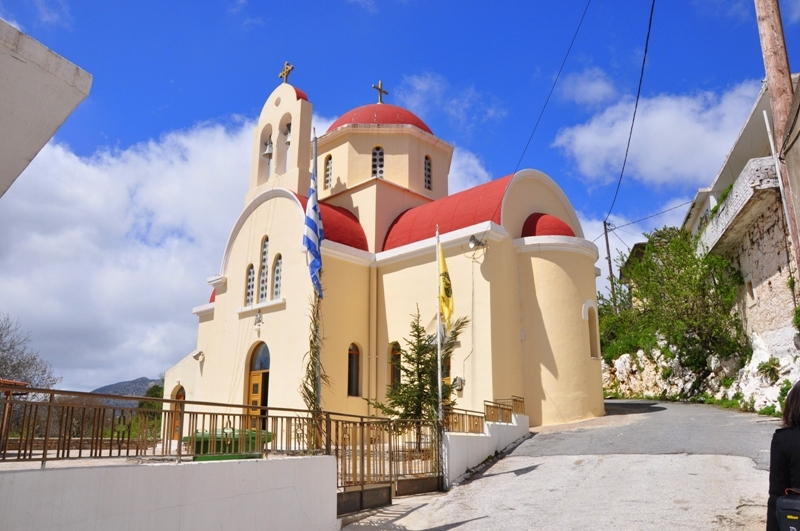 The church of Saint John the Evangelist in Marmaketo (Oropedio Lasithiou municipality, in Crete).